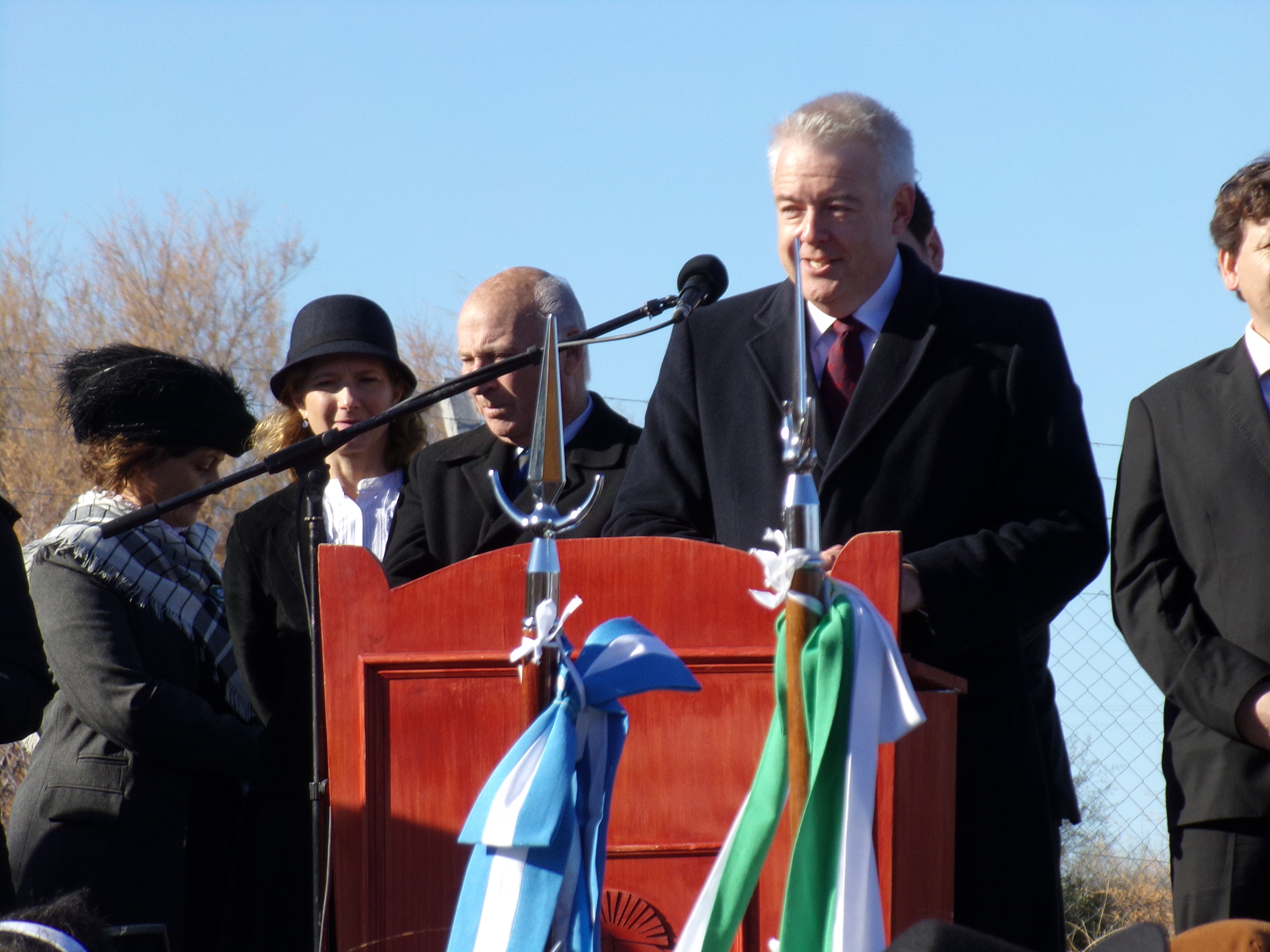 Ceremony in Punta Cuevas, Puerto Madryn. The encounter between two cultures (Welsh and Tehuelche-Mapuche) was performed. Then allusive words were read.